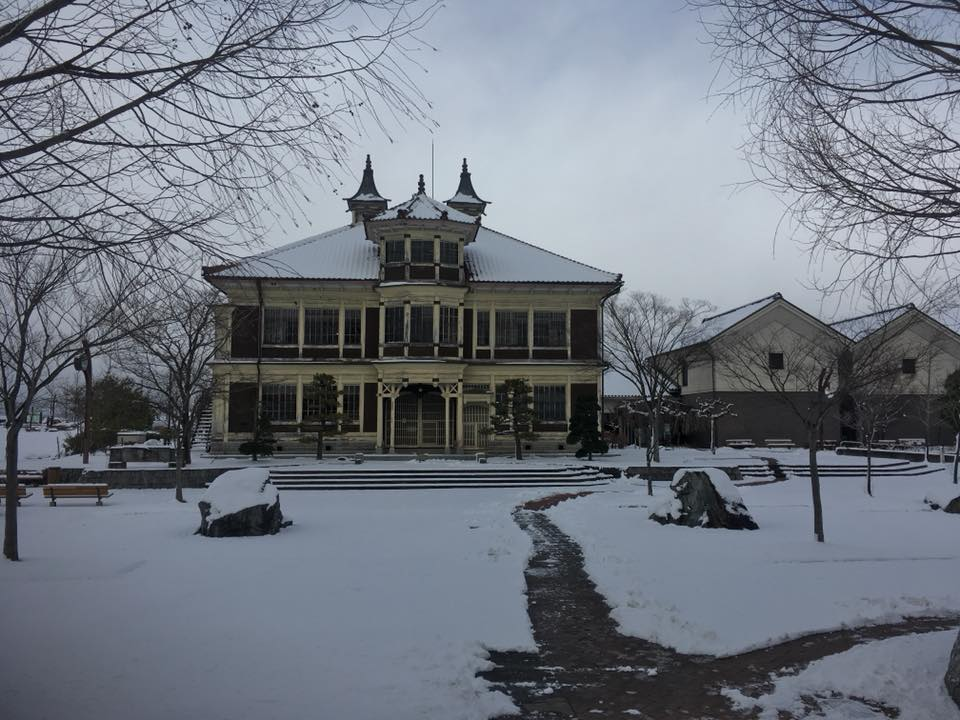 Former Kameoka family home (center) and Date City's Hobara Culture and History museum (right)